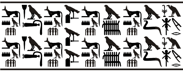 Drawing of a cylinder seal impression of Merneith, queen consort and regent of Egypt of the 1st Dynasty of Egypt.